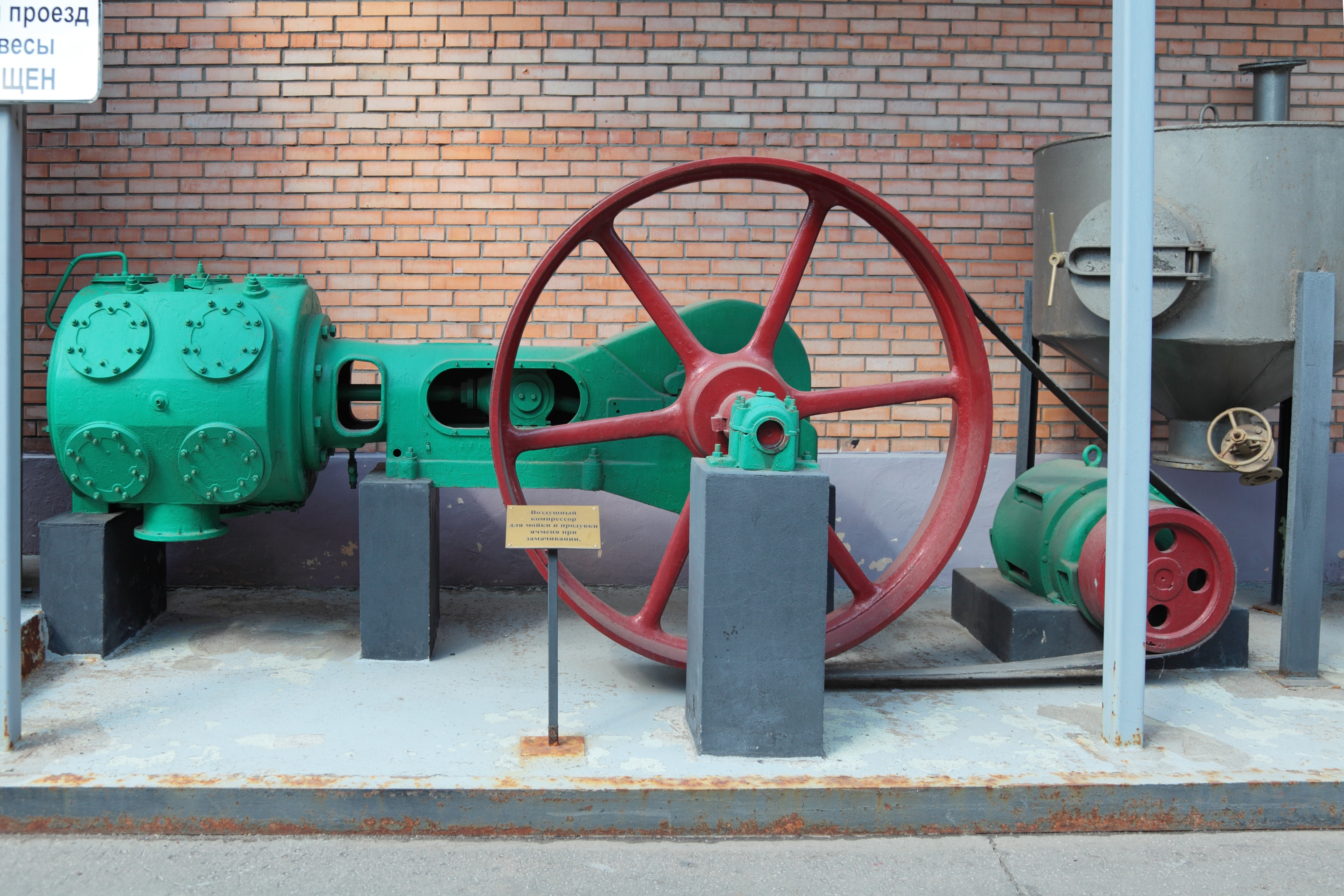 MOSCOW, OCHAKOVO BREWERY - JUN 13: The exposition of retro-equipment for brewing. Old air compressor for cleaning and purging of barley on June 13, 2013 in Moscow, Russia